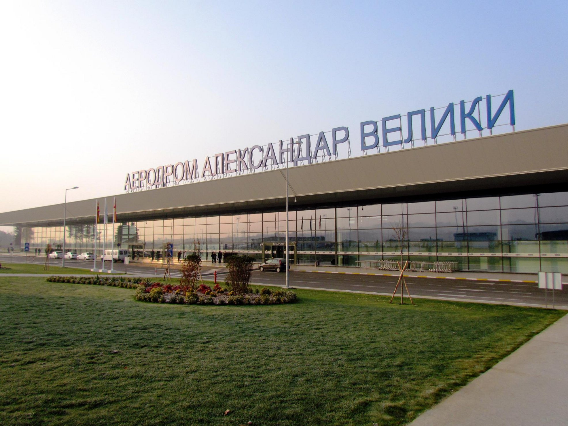 Skopje Alexander the Great Airport